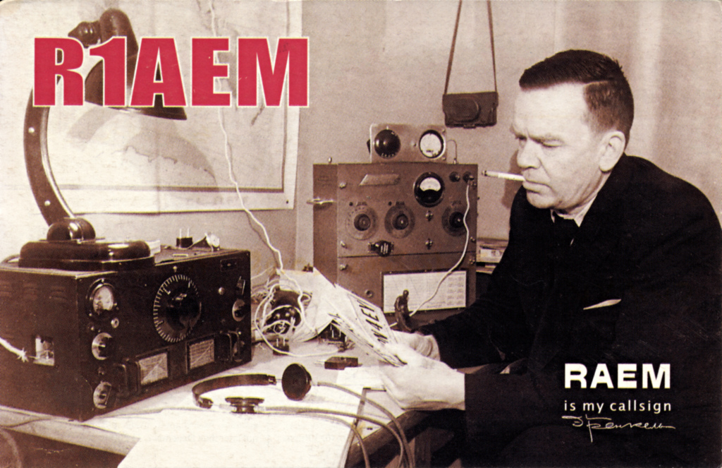 QSL R1AEM, 2013 memorial amateur radio station. Ernst Krenkel (1903-1971) with his National HRO receiver.